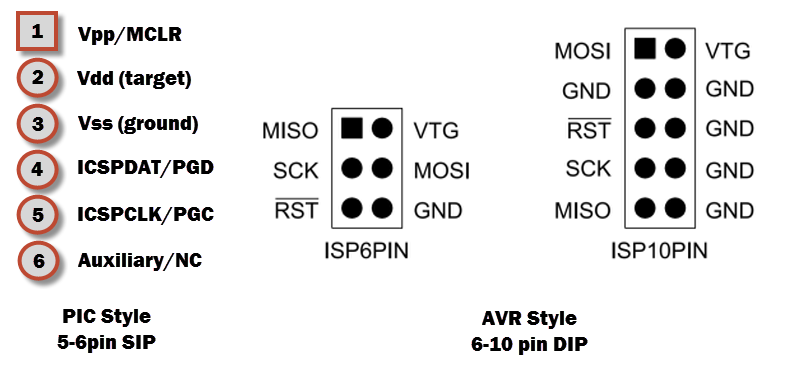 Icsp-pinouts for pic and avr micro-controlers